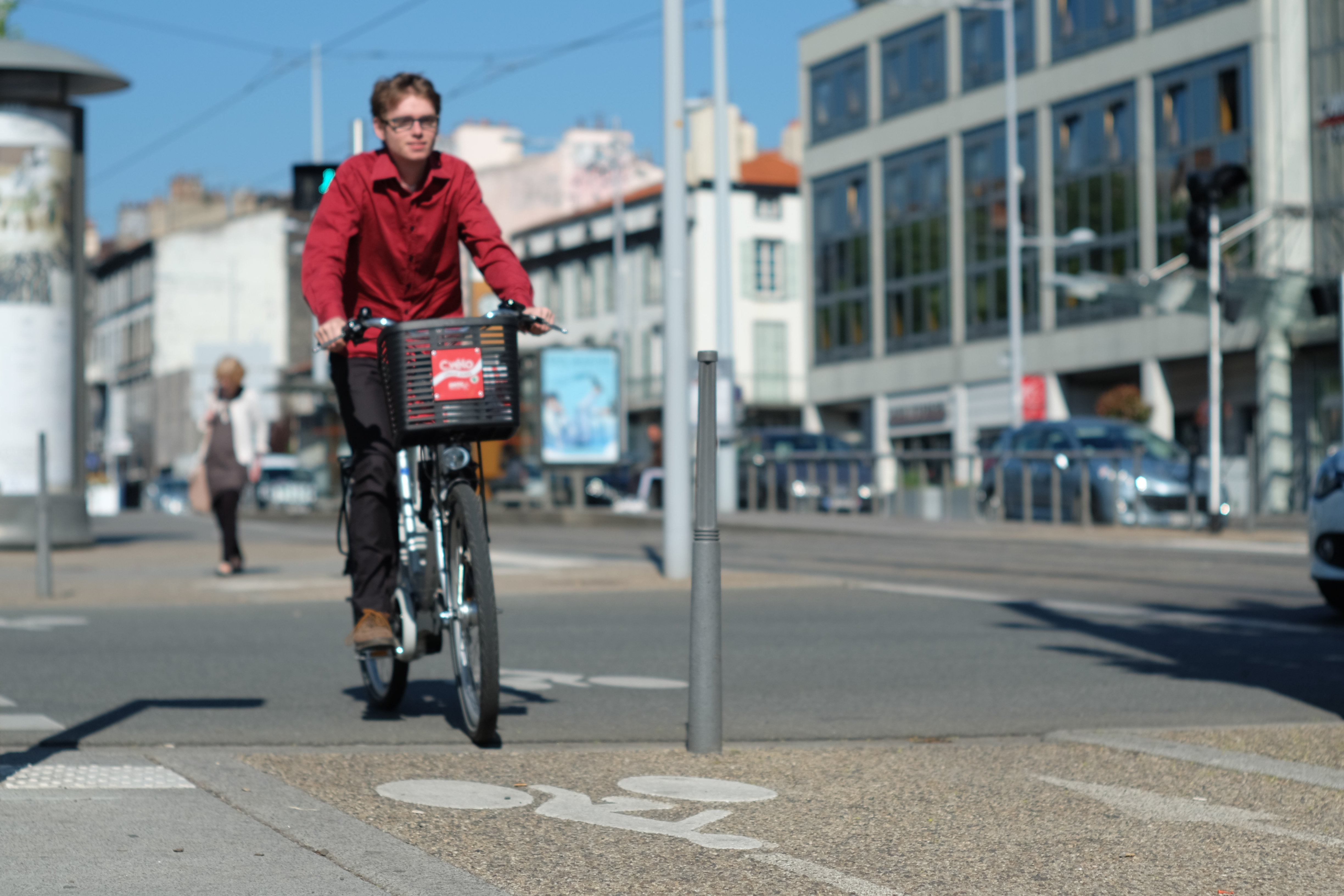 Public bike-sharing system in Clermont by Velogik